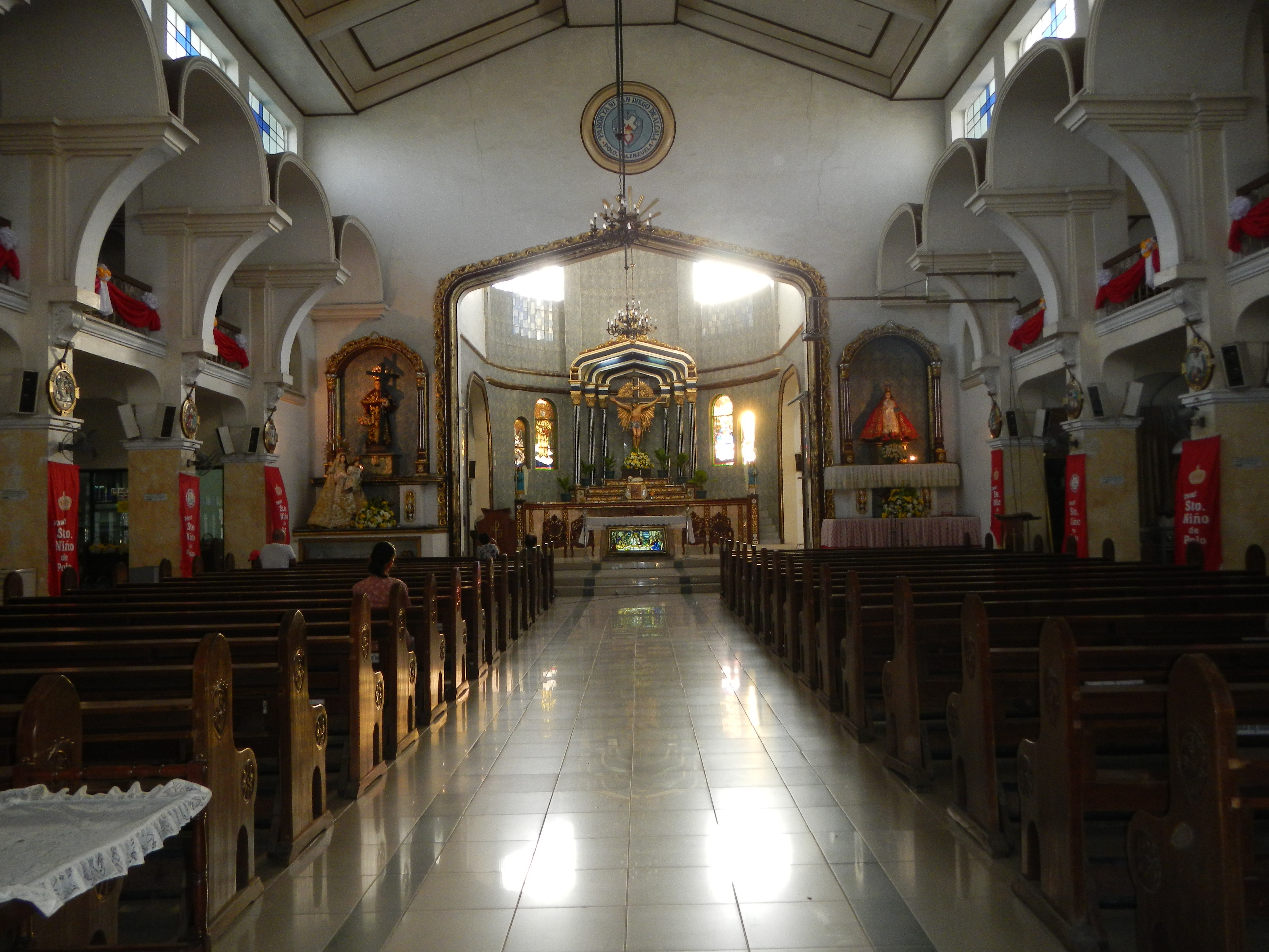 Upload Wizard photos of - San Diego de Alcala Church[1] in Brgy. Polo in Valenzuela was completed in 1632 towards the Polo Bridge, STA KM 16 + 740, 15 Tons limit part of the List of rivers and estuaries in Metro Manila[2] above the Tullahan River[3] 15-kilometer Tenejeros-Tullahan River.